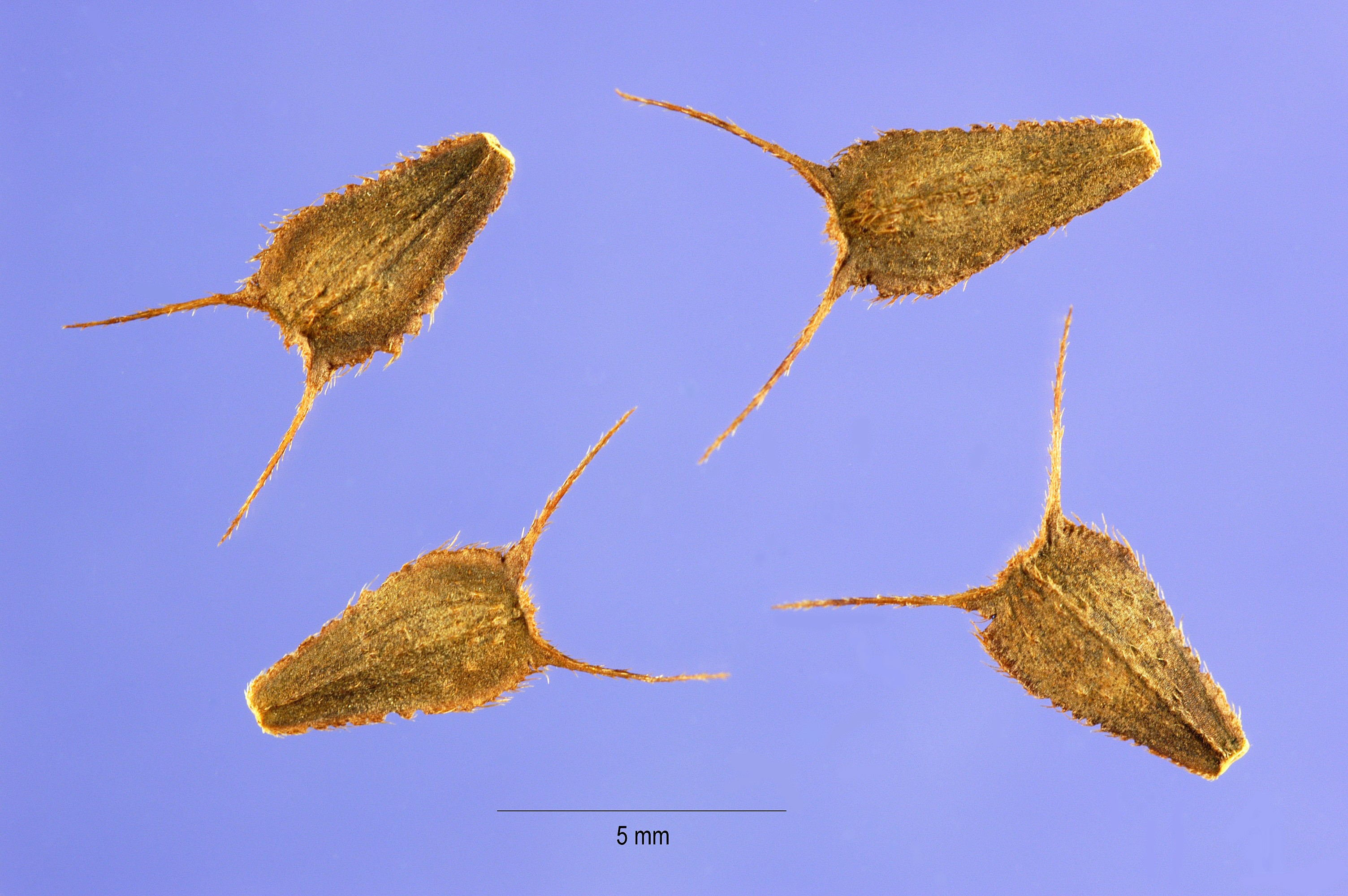 seeds of Bidens aristosa from Steve Hurst, Provided by ARS Systematic Botany and Mycology Laboratory. United States, MD, Beltsville.